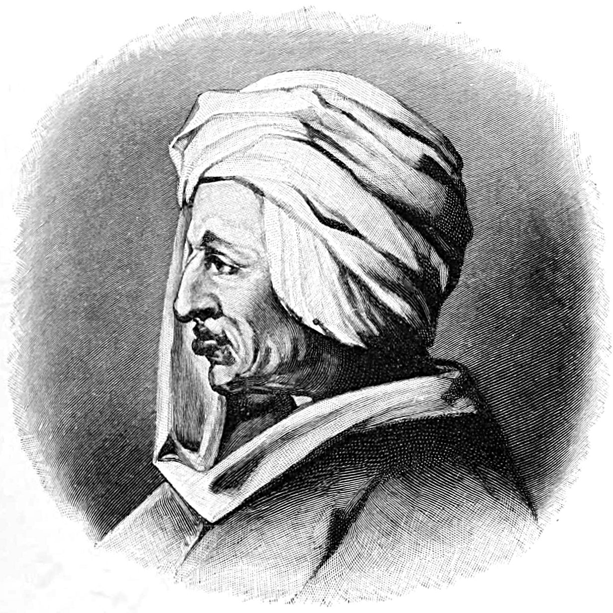 Pozzo Toscanelli (1397 – 10 May 1482)